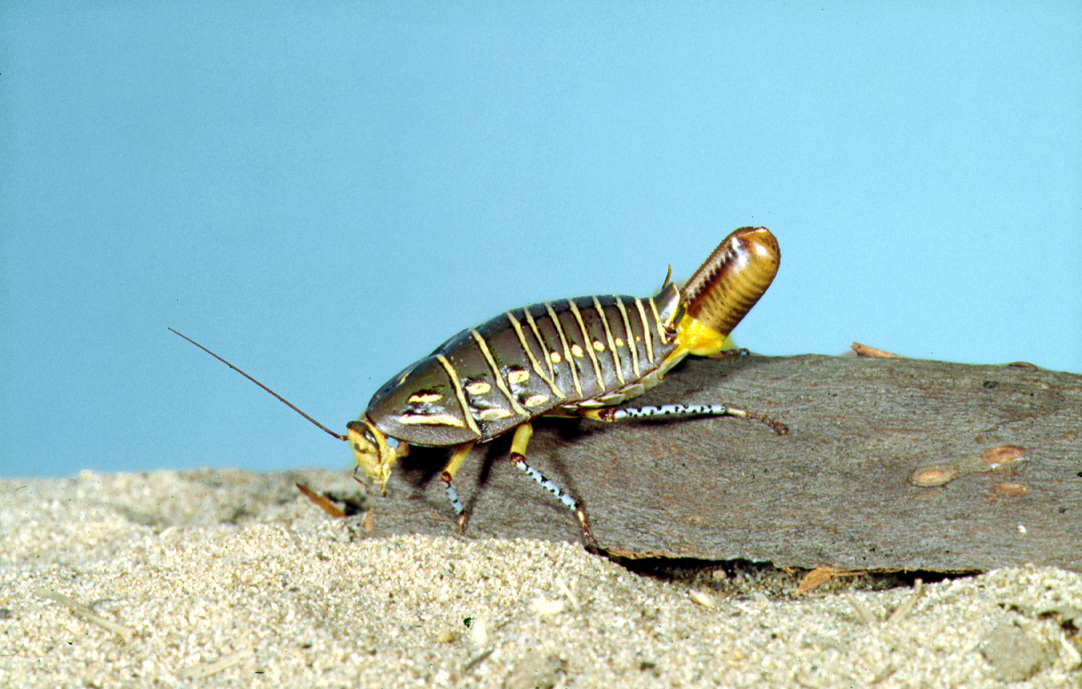 Polyzostera mitchelli. This native cockroach is common to Central Australia. Mitchell's wandering cockroach perches in small shrubs on the Nullarbor Plain at midday. The unique, clear, window-like areas along the sides of its thorax may reflect the hot rays of the sun. It secretes a repulsive-smelling liquid when disturbed which probably serves as a repellant to predators. The female deposits her egg case in a shallow ground in the soil that she has dug.